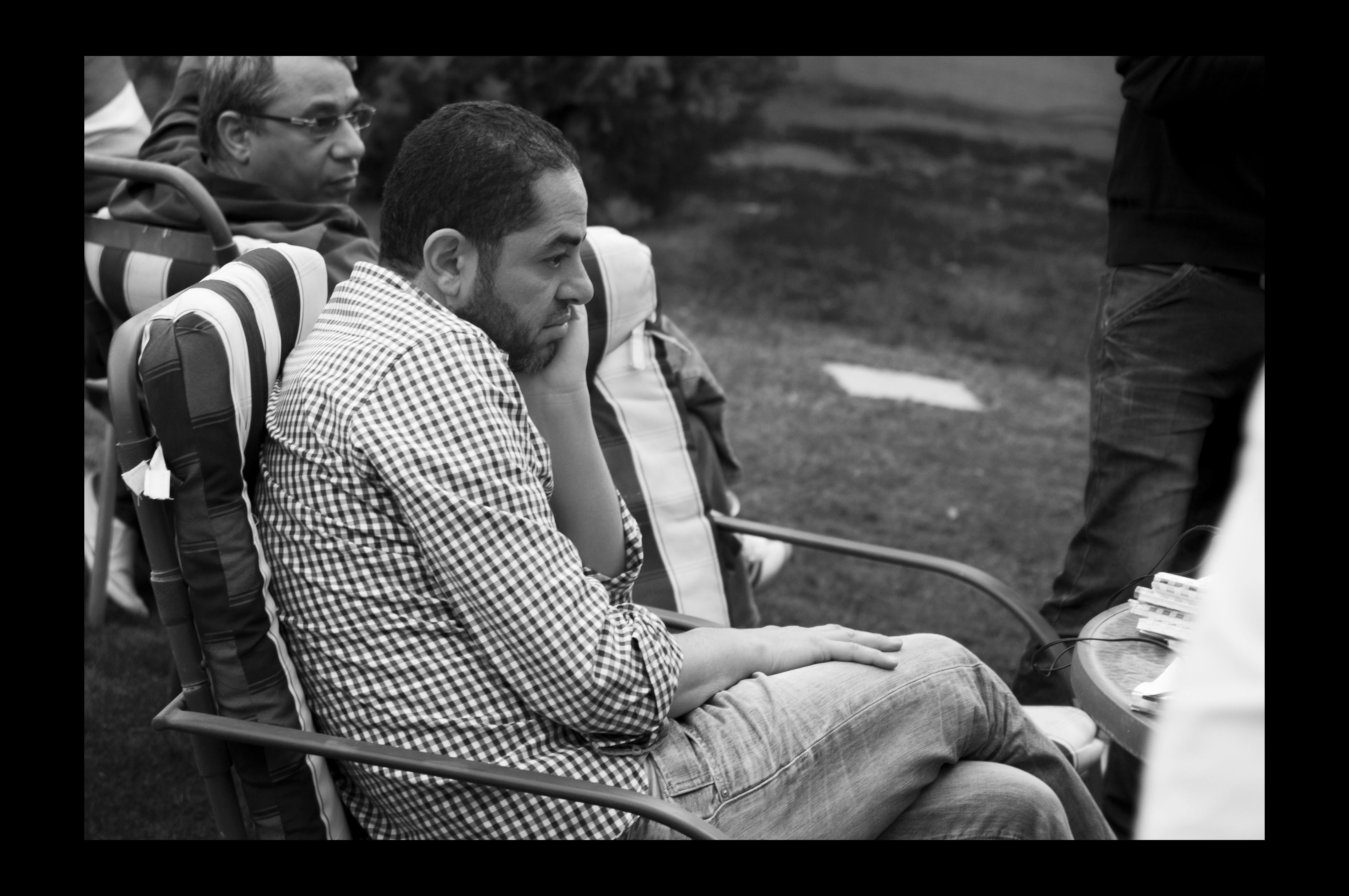 المخرج احمد شفيق